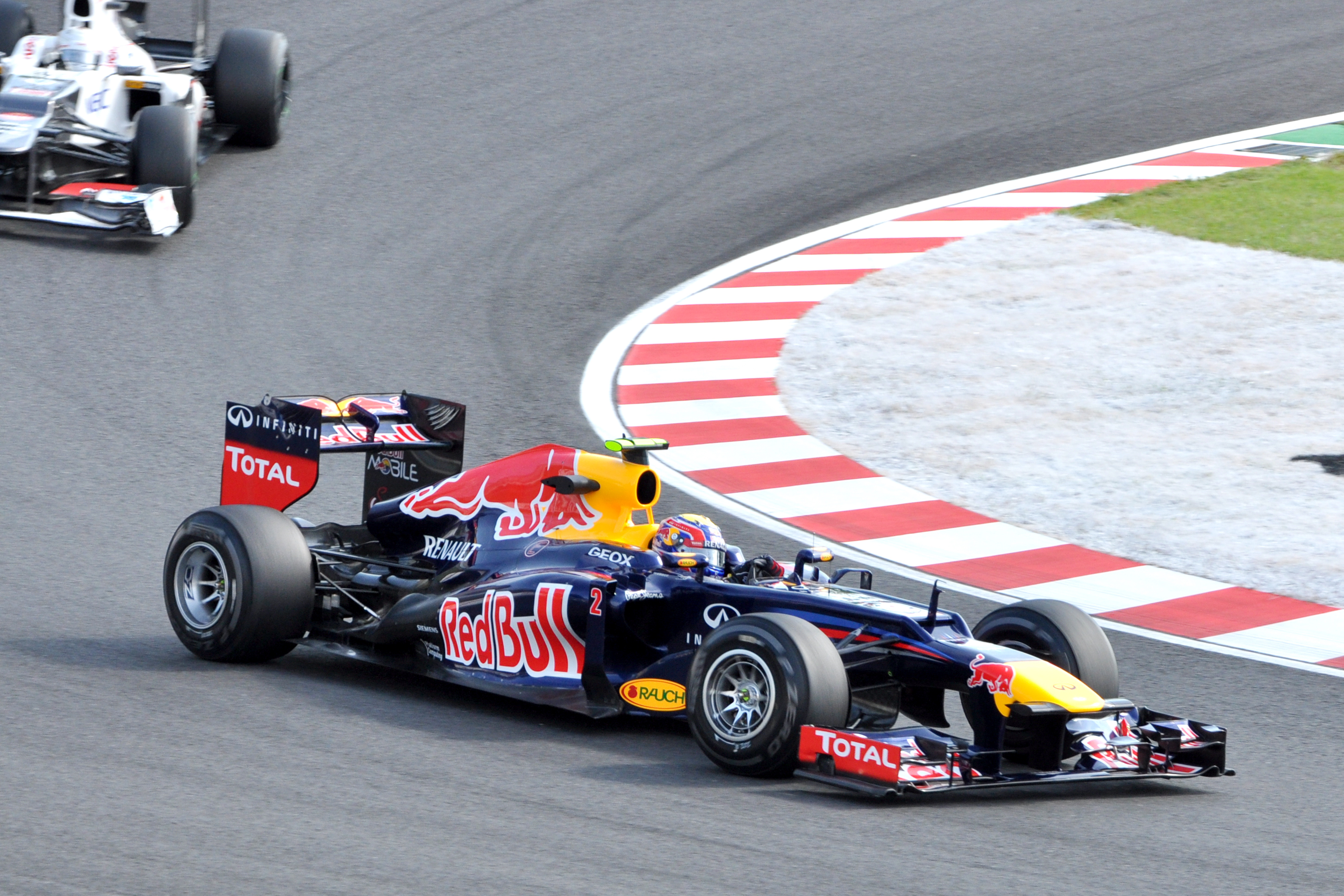 Sergio Perez follows Mark Webber's Red Bull through the hairpin during the second free practice session at the 2012 Japanese Grand Prix.